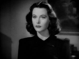 Cropped screenshot of Hedy Lamarr from the trailer for the film Come Live with Me